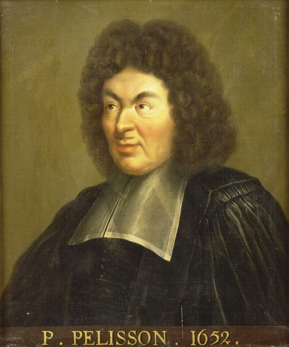 Portrait of French writer Paul Pellisson (1624-1693)